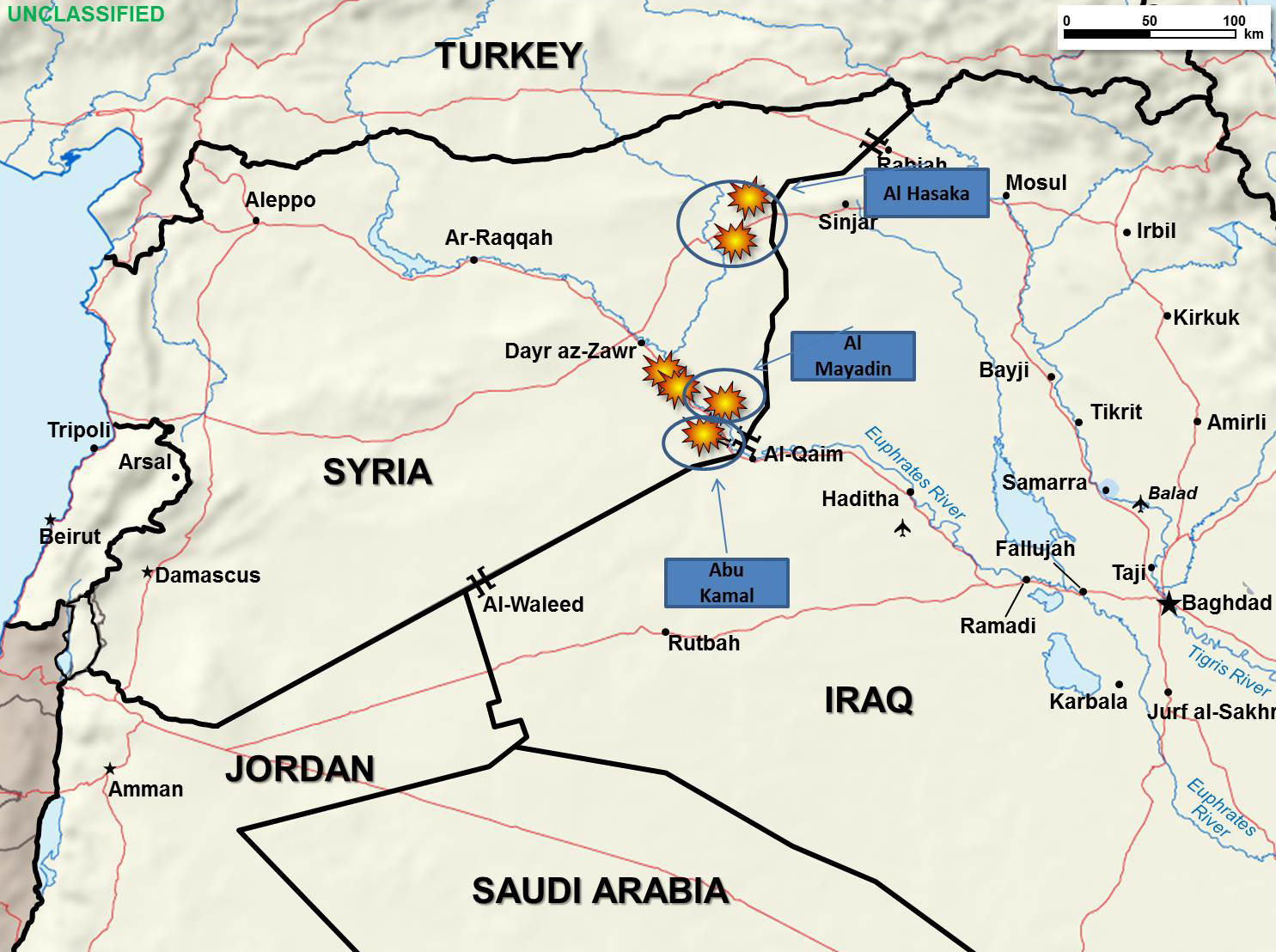 Fighter aircraft from Saudi Arabia, United Arab Emirates and the United States attacked oil refineries in eastern Syria controlled by the Islamic State of Iraq and the Levant, Sept. 24, 2014.